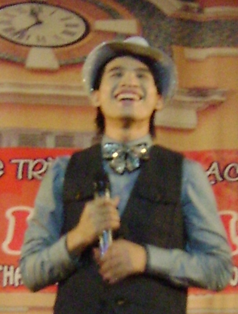 A shot was taken in Tuổi hồng 15, which was held to raise fund for the poor by Minh Khai senior high school, Vietnam.